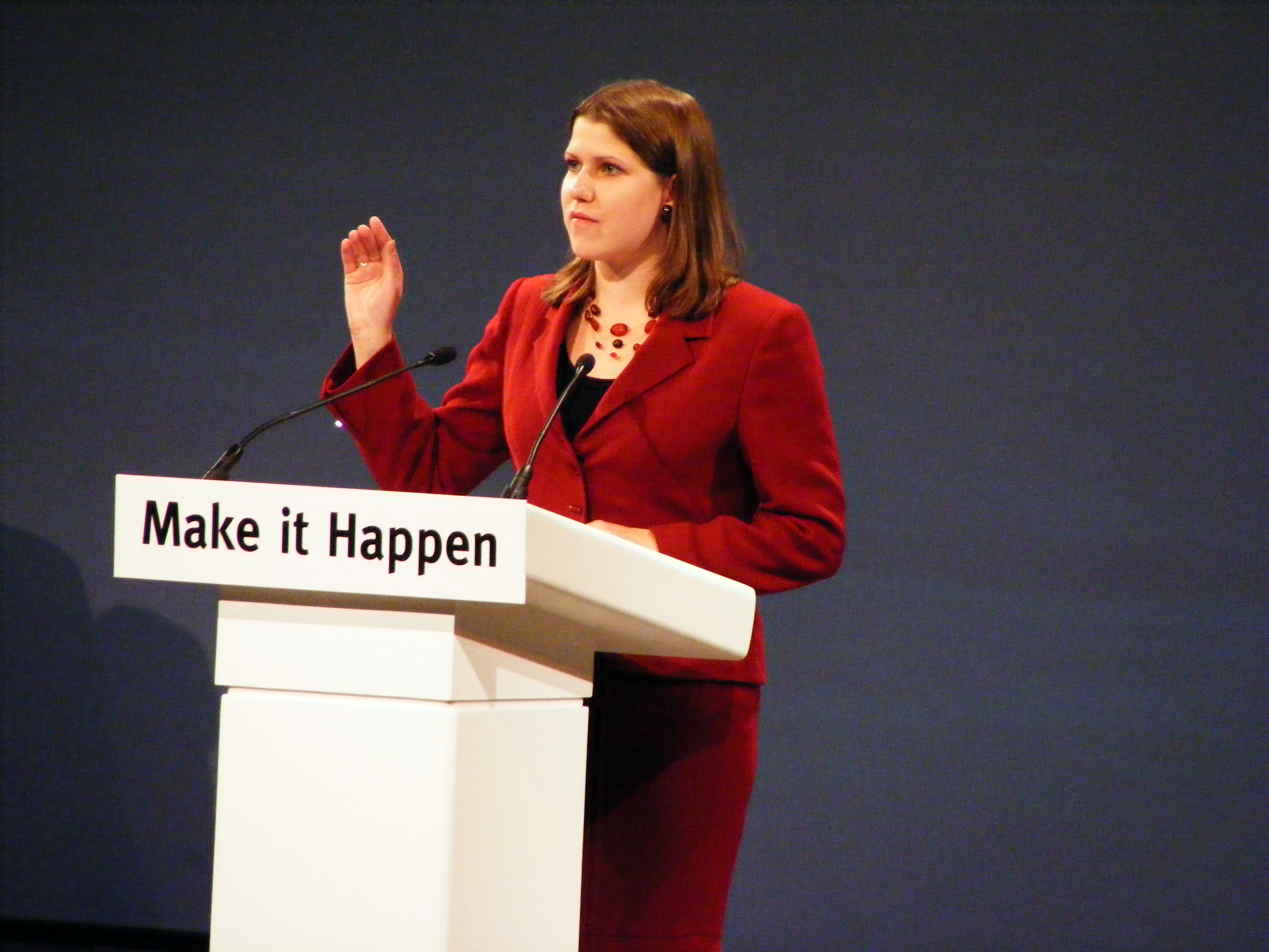 Jo Swinson